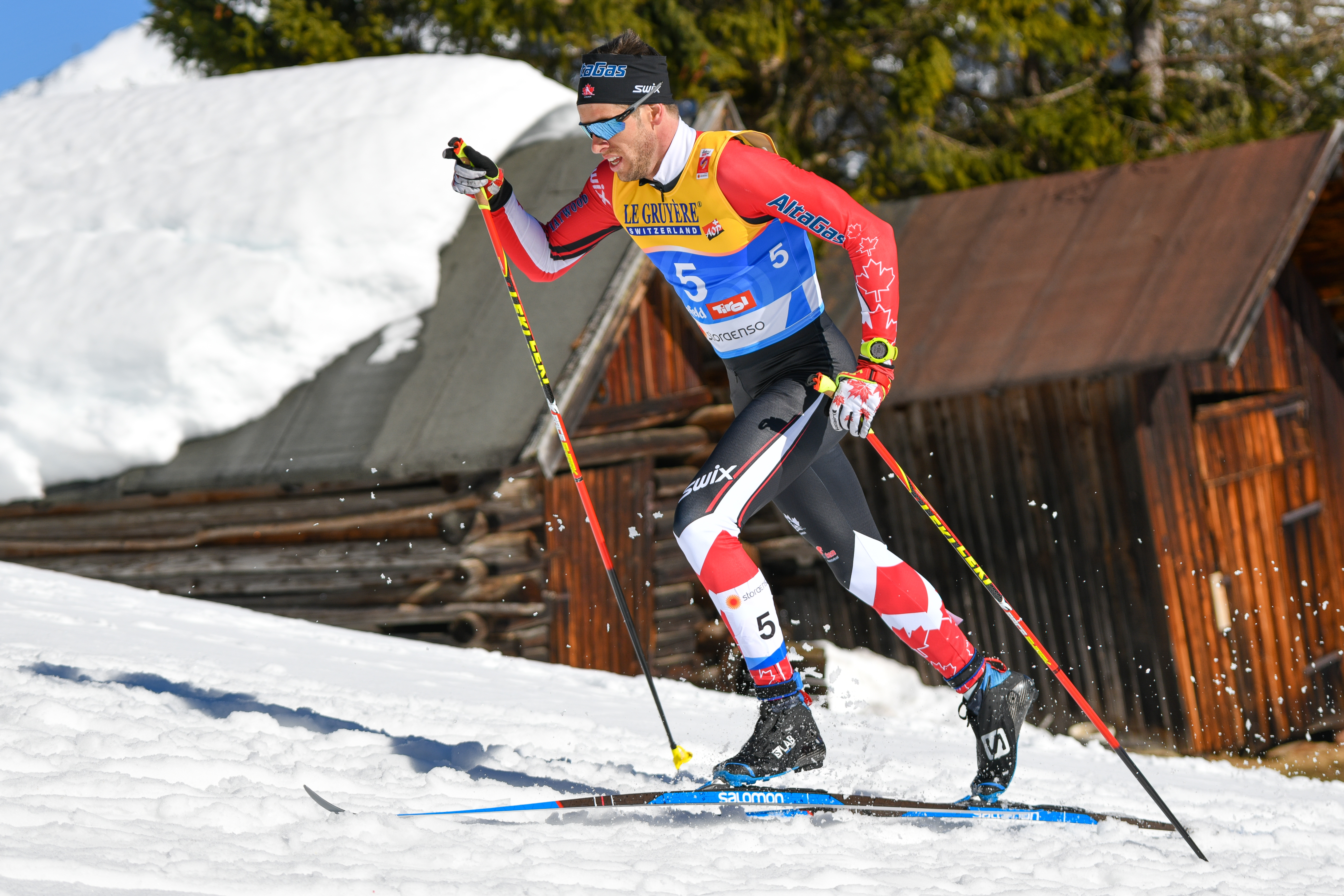 FIS Nordic Wolrd Ski Championships Seefeld 2019 - Men 15km Interval Start Classic. Picture shows Russell Kennedy (CAN).